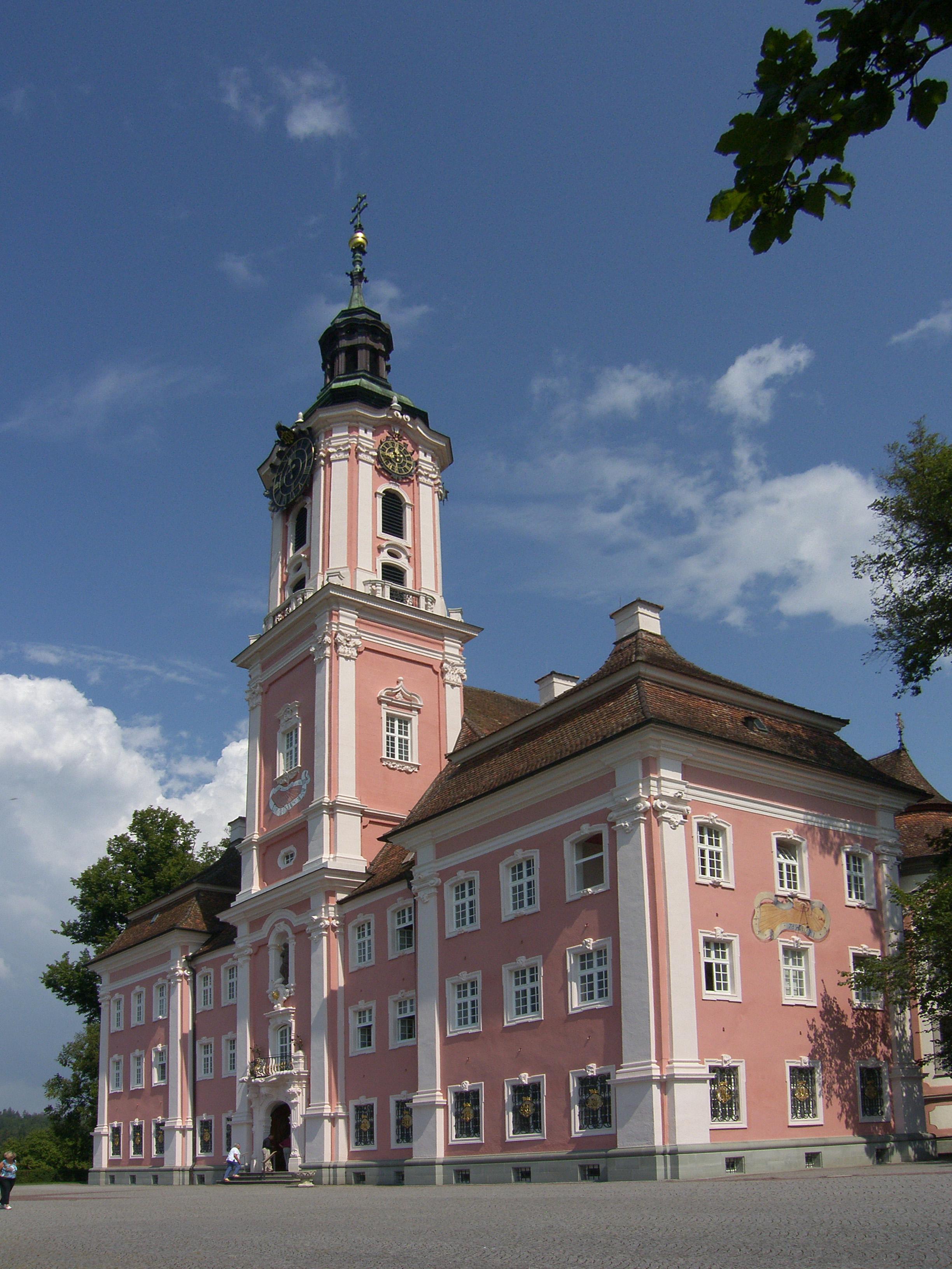 Pilgrimage church at Birnau, Lake Constance